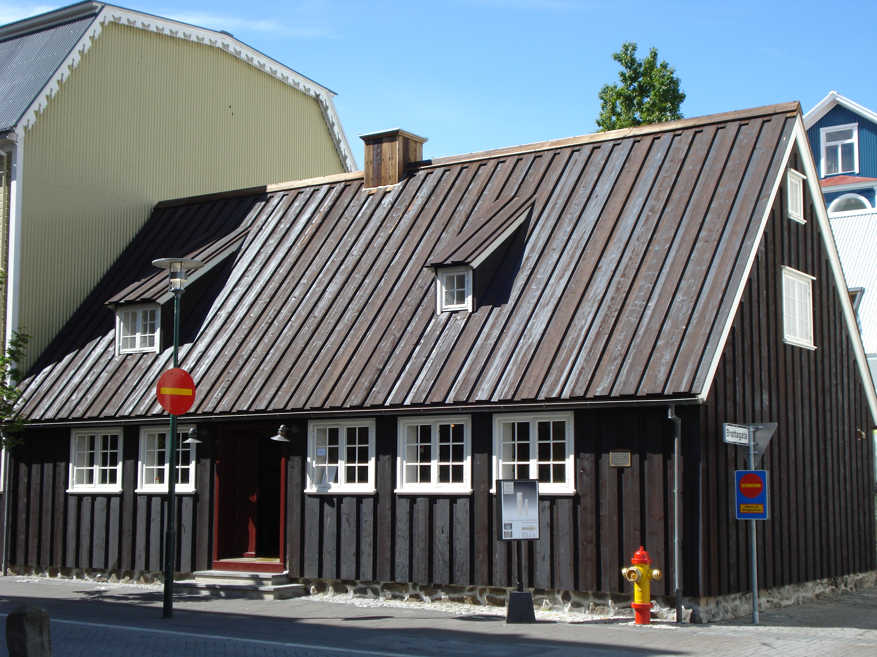 Aðalstraeti 10, Kontor- og Magazinhus, Innréttinganna, Build 1762